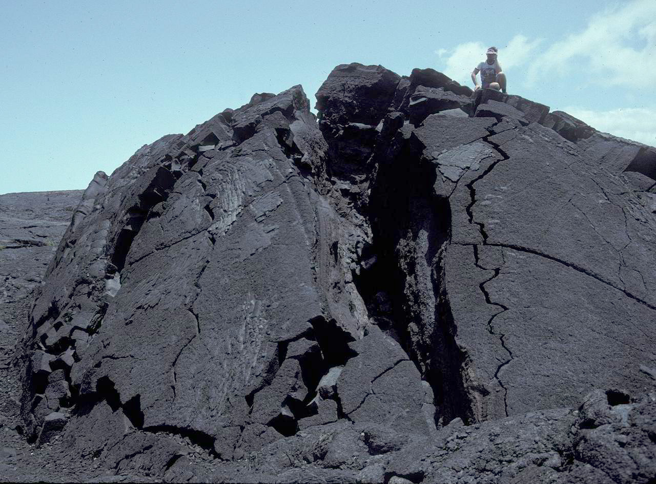 A tumulus is an inflated portion of lava that may be hollow, and signify an inflationary cave. It occurs when lava is forced up from below and pushes up the surface. If that lava drains back down, a void can be left.